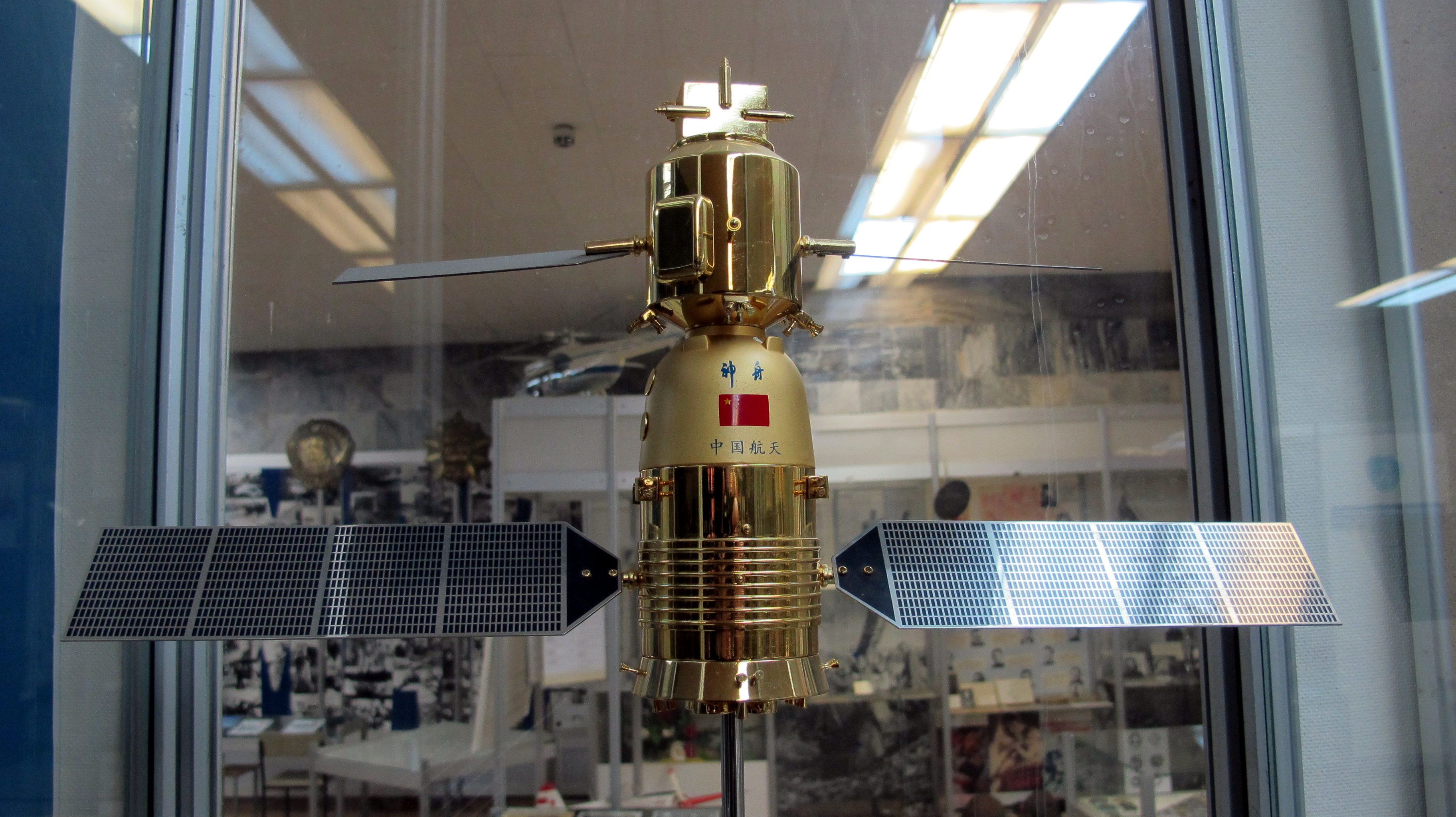 Wikitrip to MAI museum 2016-02-02